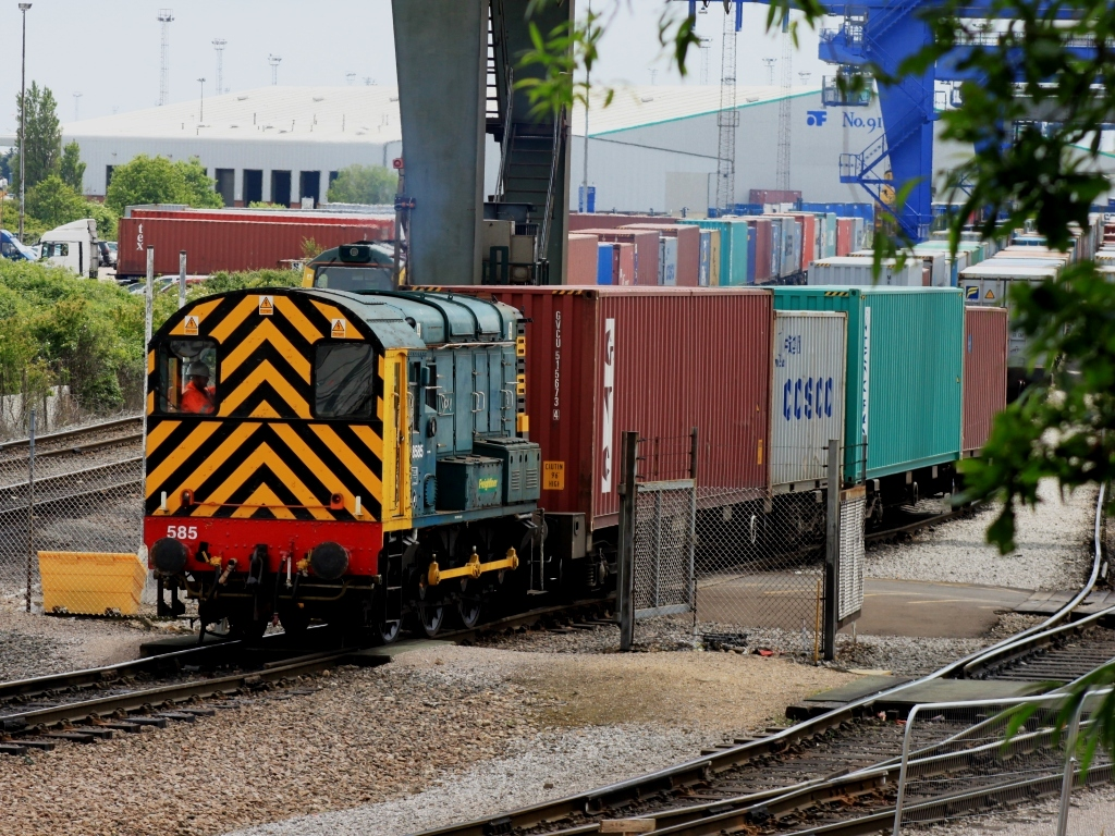 Freightliner UK's suhunter at Felixstowe, number 08585, pulls a few container wagons out of the Port of Felixstowe's North Freightliner Terminal